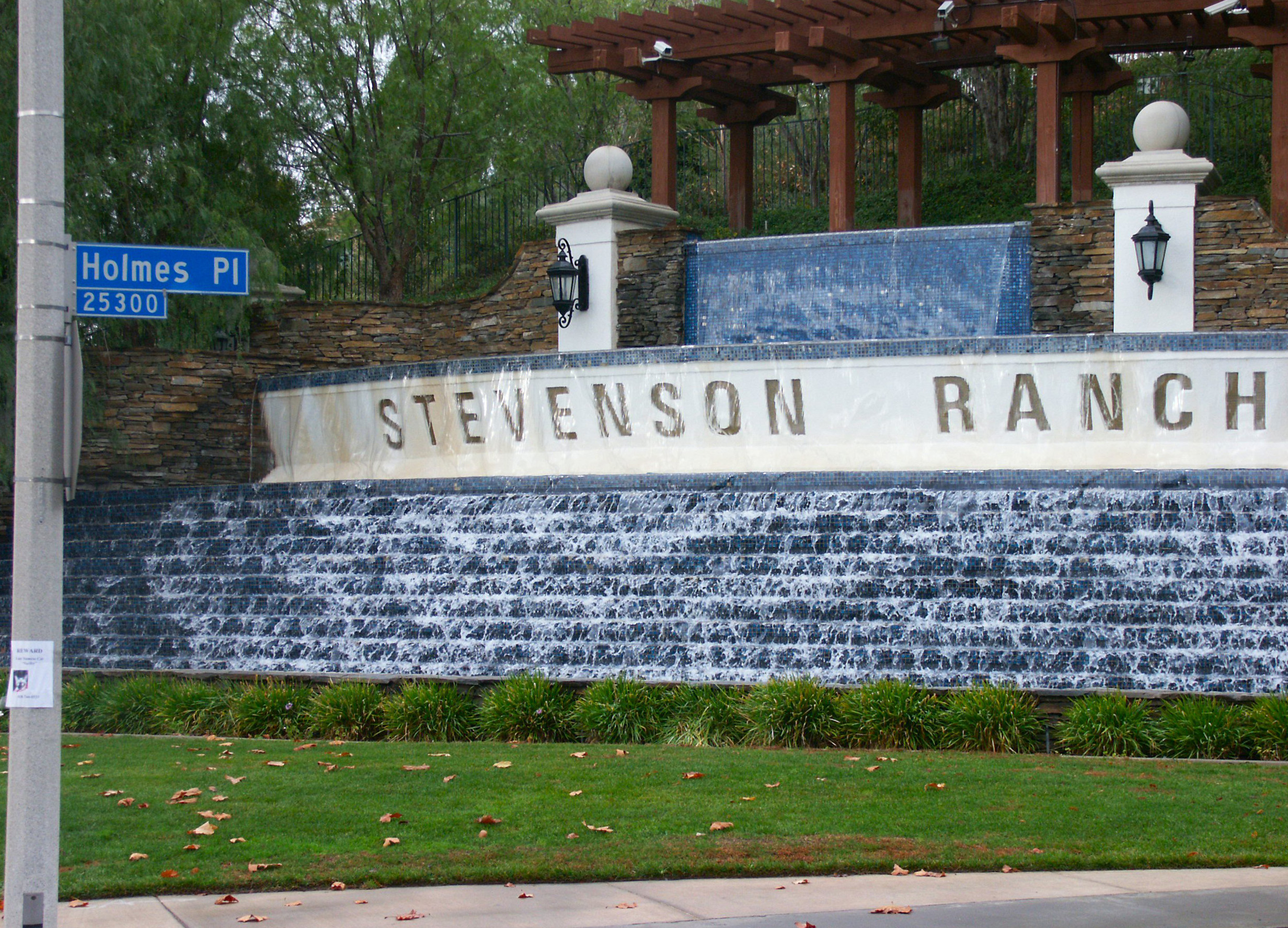 Photo of the untouched "Agrestic" sign that is shown in the introduction of the show. The show's creators took footage of this community entrance sign in Stevenson Ranch, CA and digitally inserted "Agrestic" over it.